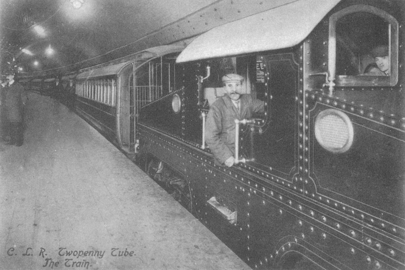 A postcard for the Central London Railway (now the London Underground's Central line) showing a CLR locomotive with 1900/1903 stock at Shepherd's Bush tube station.